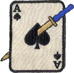 Emblem of the USAF 116th Fighter-Interceptor Squadron (ADC) WA Air National Guard